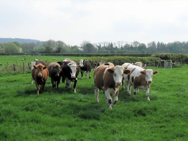 We are coming to get you ... I have seen people turn and run in a situation that looks like this – and if you run the bullocks come even faster. In fact young cattle are just curious and frequently come within touching distance to have a good look and say hello. The only time I have even had a problem was crossing a field with a herd of milking cows, one of which had just had its calf taken away.